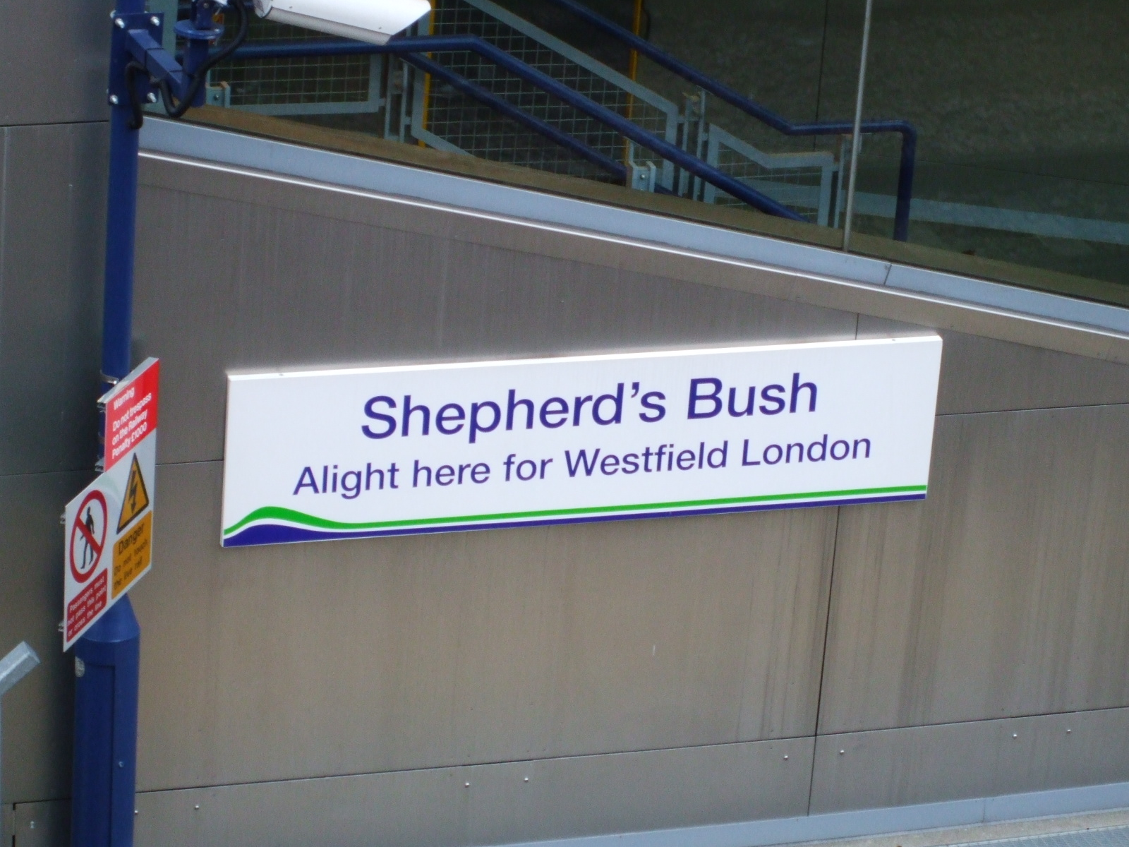 Shepherd's Bush London Overground station platform signage in late 2007, prior to opening. This is the Silverlink colour scheme, which remained in place after London Overground took over the West London Line in November 2007. However, by the time the station finally opened in September 2008, the signs had been replaced by London Overground roundels.